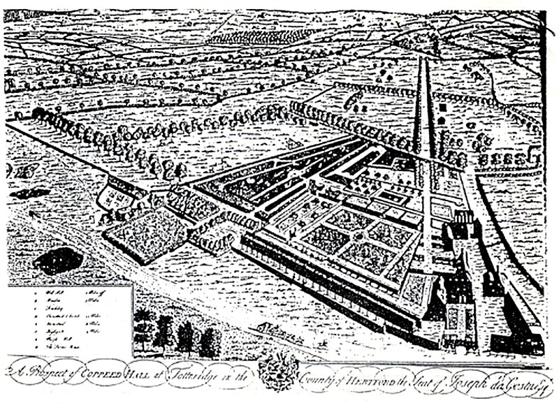 A Prospect of Coppeed Hall at Totteridge in the County of Hertford seat of Joseph Da Costa, Esq. Badeslade & Roqeu, Vitruvius Brittanicus, Vol. iv, 1739.